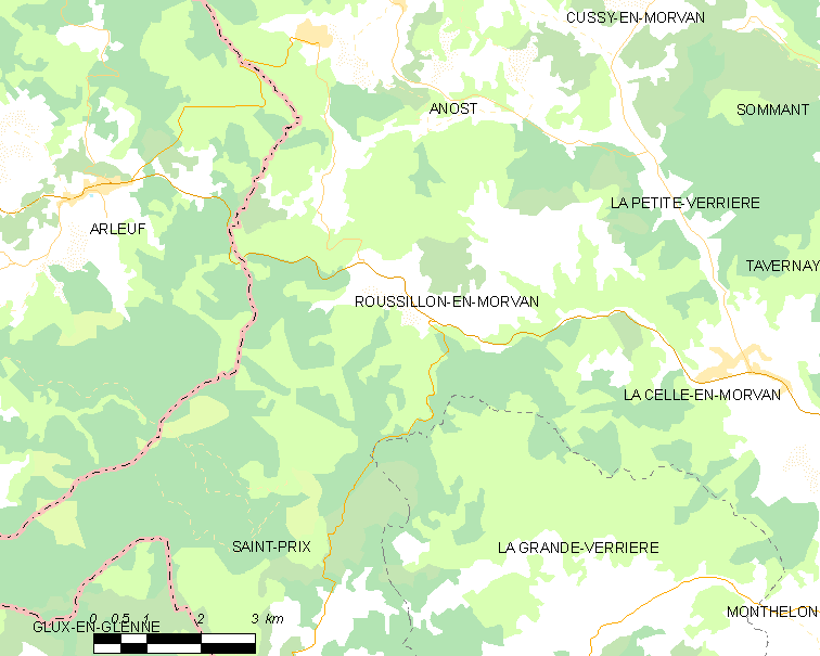 Map of French municipality